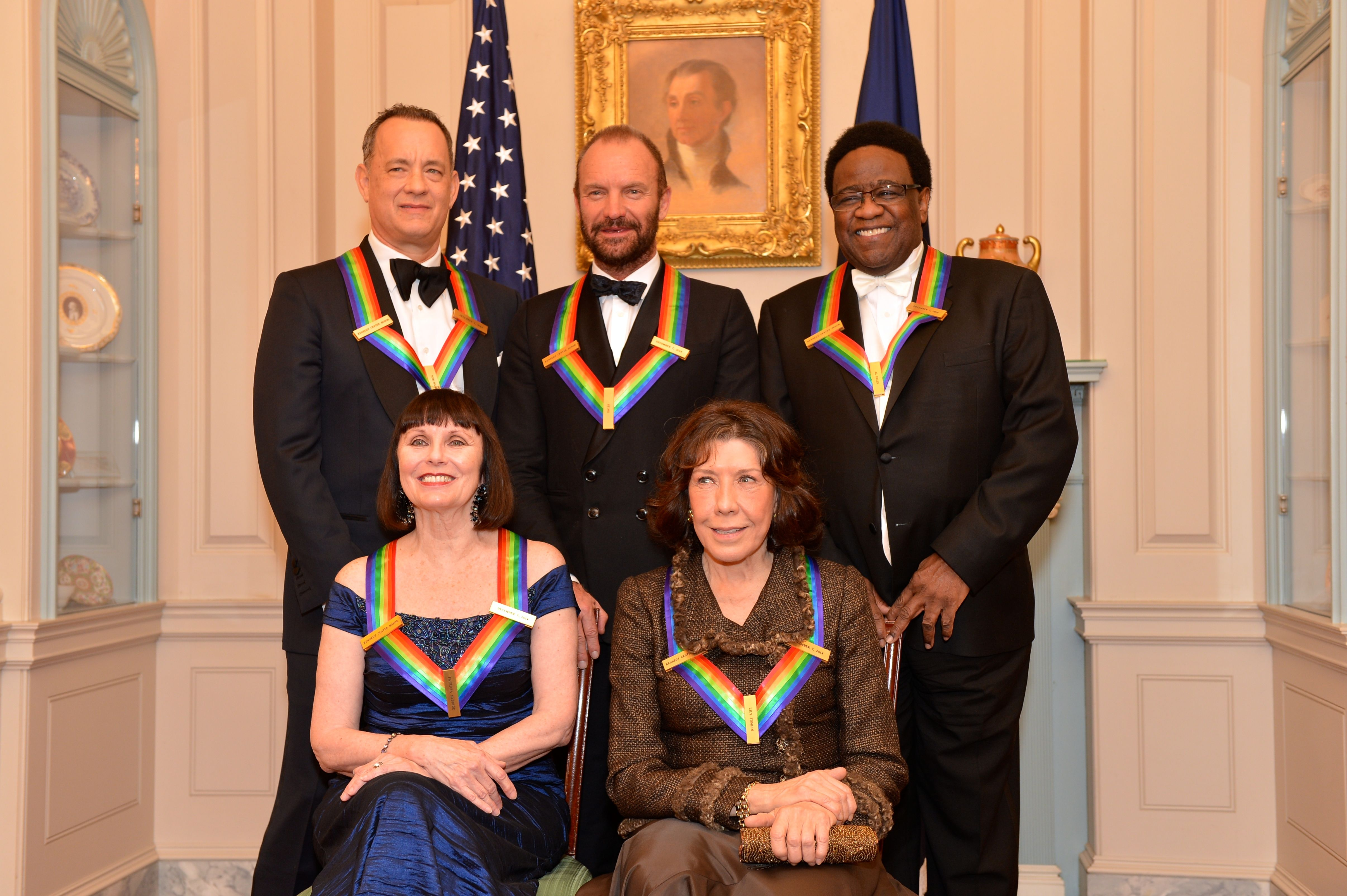 The 2014 Kennedy Center Honorees -- singer Al Green, actor and filmmaker Tom Hanks, ballerina Patricia McBride, singer-songwriter Sting, and comedienne Lily Tomlin -- pose for a photo after a dinner hosted by U.S. Secretary of State John Kerry at the U.S. Department of State in Washington, D.C., on December 6, 2014. [State Department photo/ Public Domain]